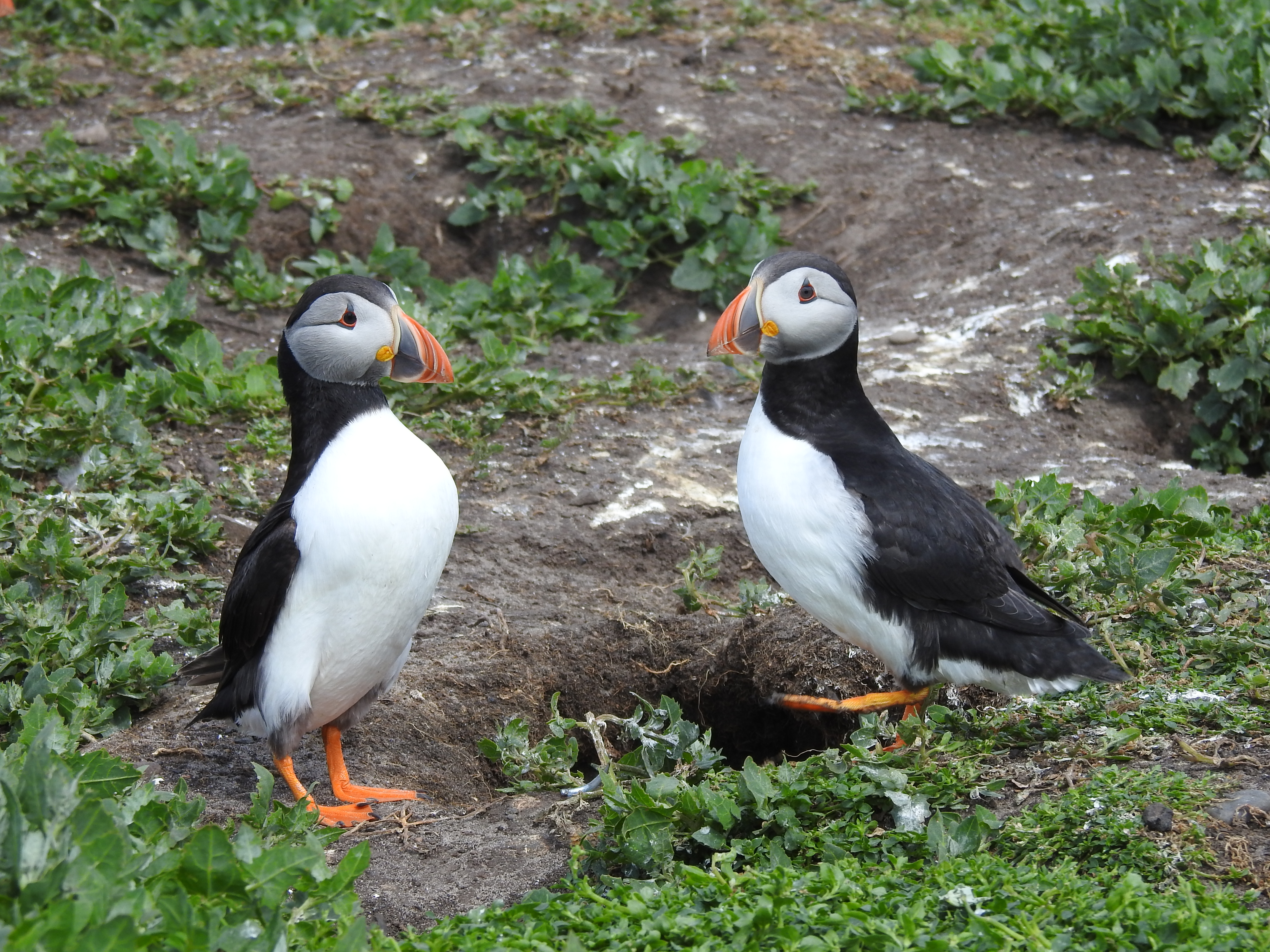 Two puffins facing each other